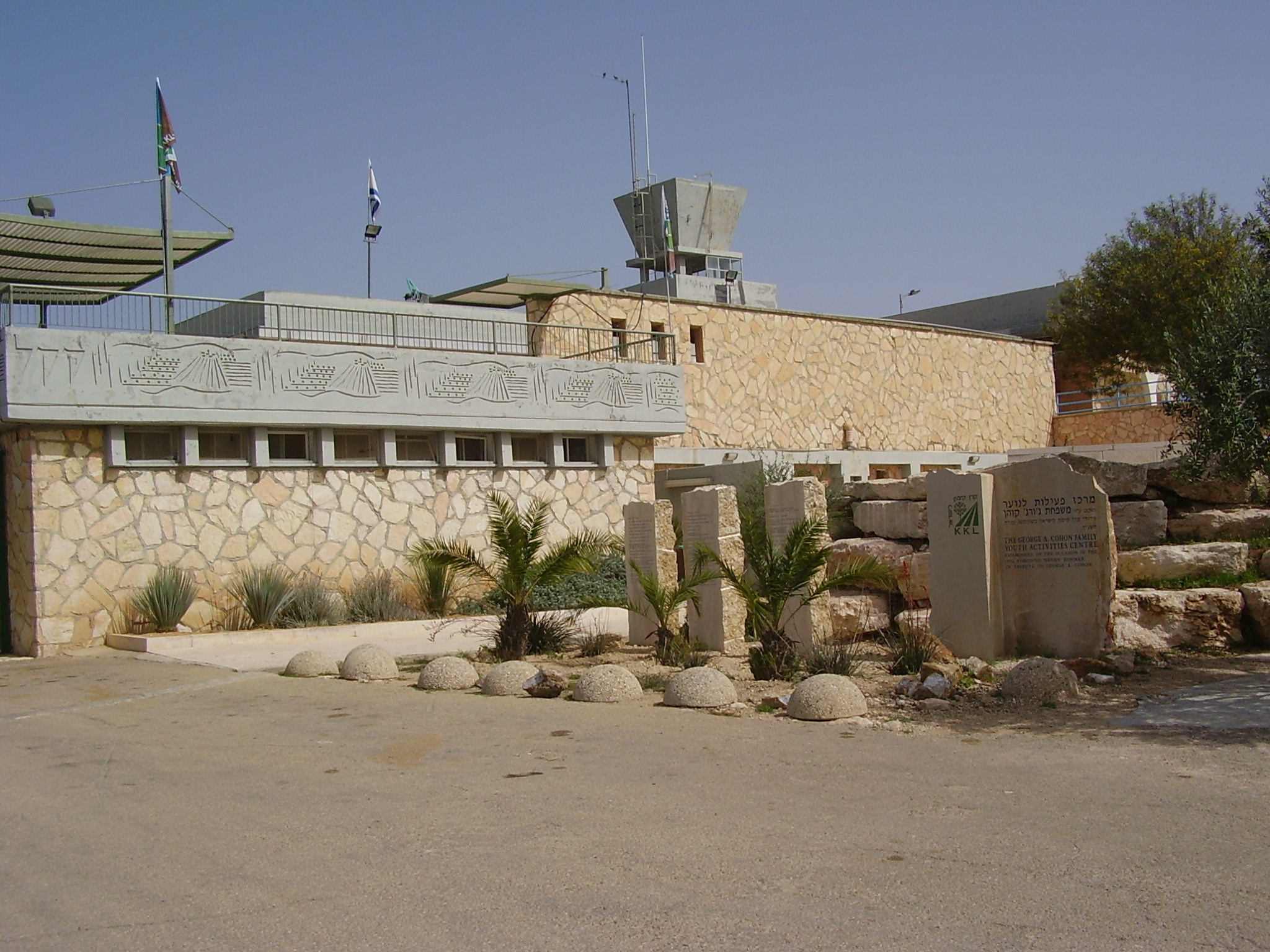 foresters building in yatir forest